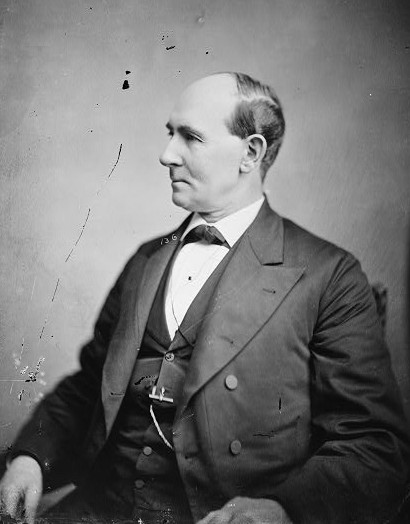 William Edward Finck (1822 - 1901), a U.S. Representative from Ohio